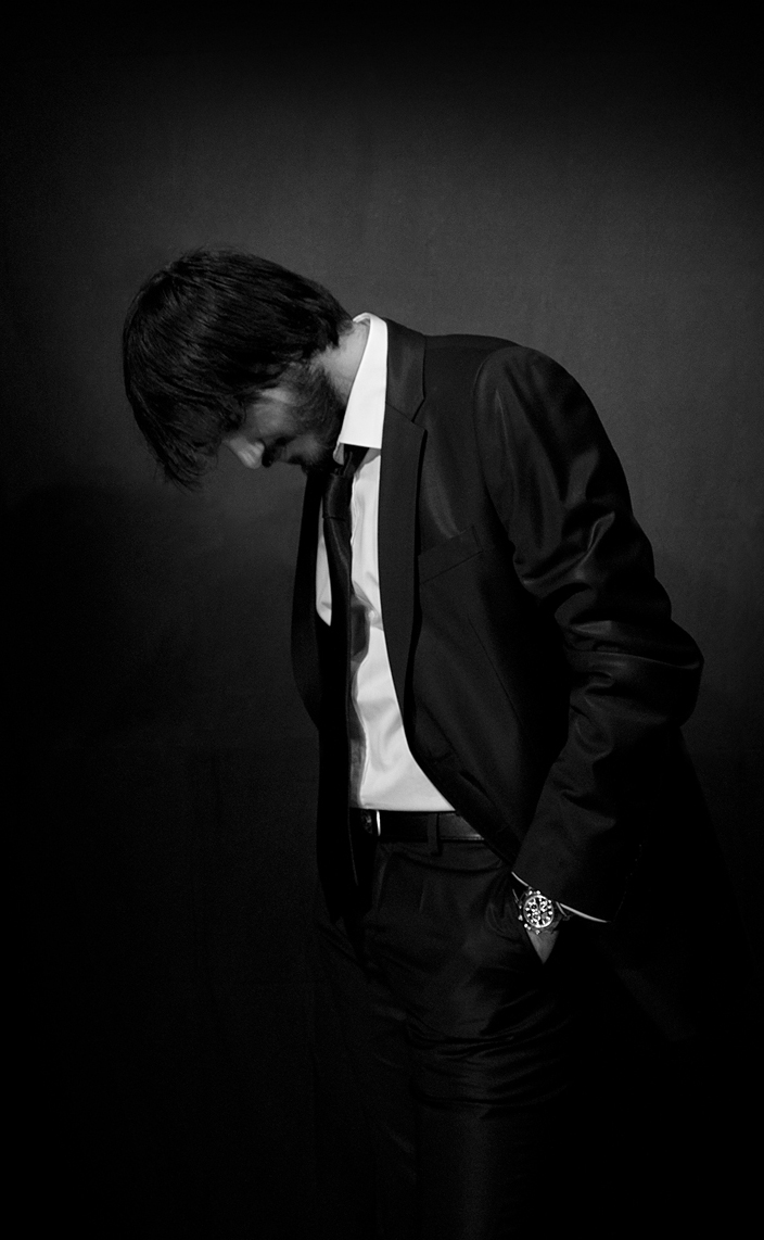 Doruk Cetin, Mise en Scene photoshoot.